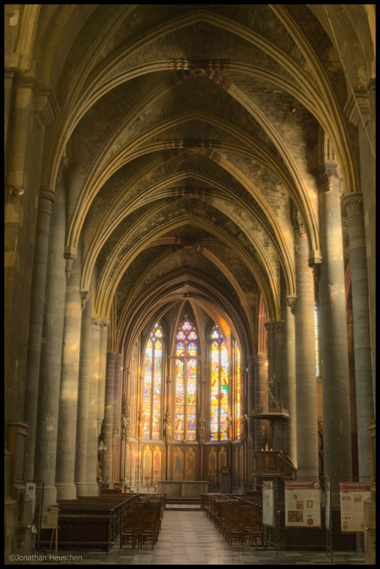 La collégiale Sainte-Croix